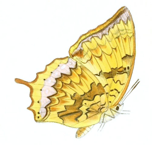 Haridra kahruba